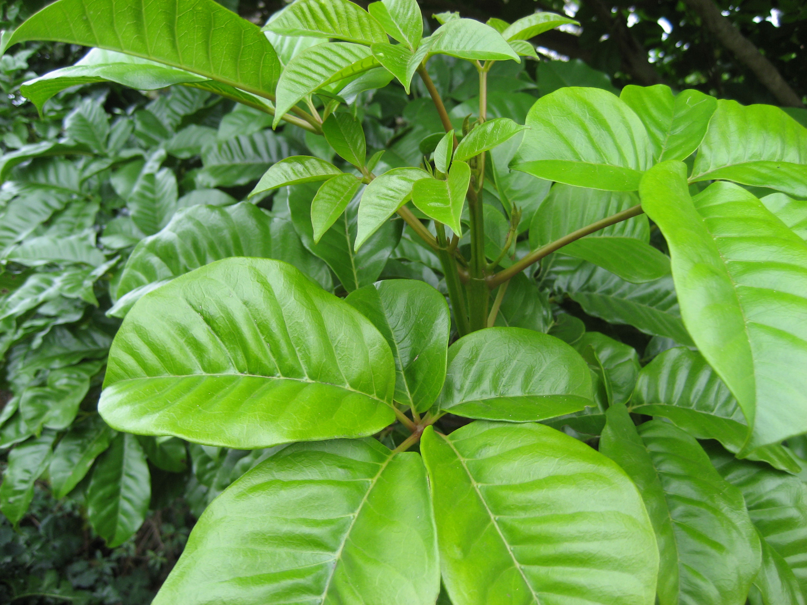 Foliage of a young Vitex lucens, Pūriri tree, Auckland, New Zealand.